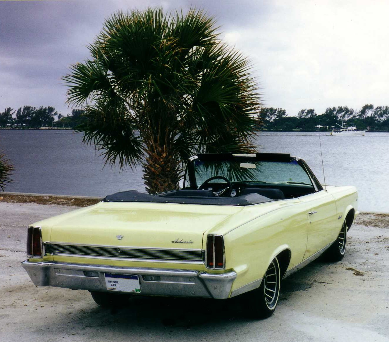 1967 Ambassador DPL convertible by American Motors Corporation (AMC) with the top down in Florida. Note the wheels are not correct for this model year, they are AMC's aluminum road wheels known as "TurboCast II" that were available from 1979 to 1983.